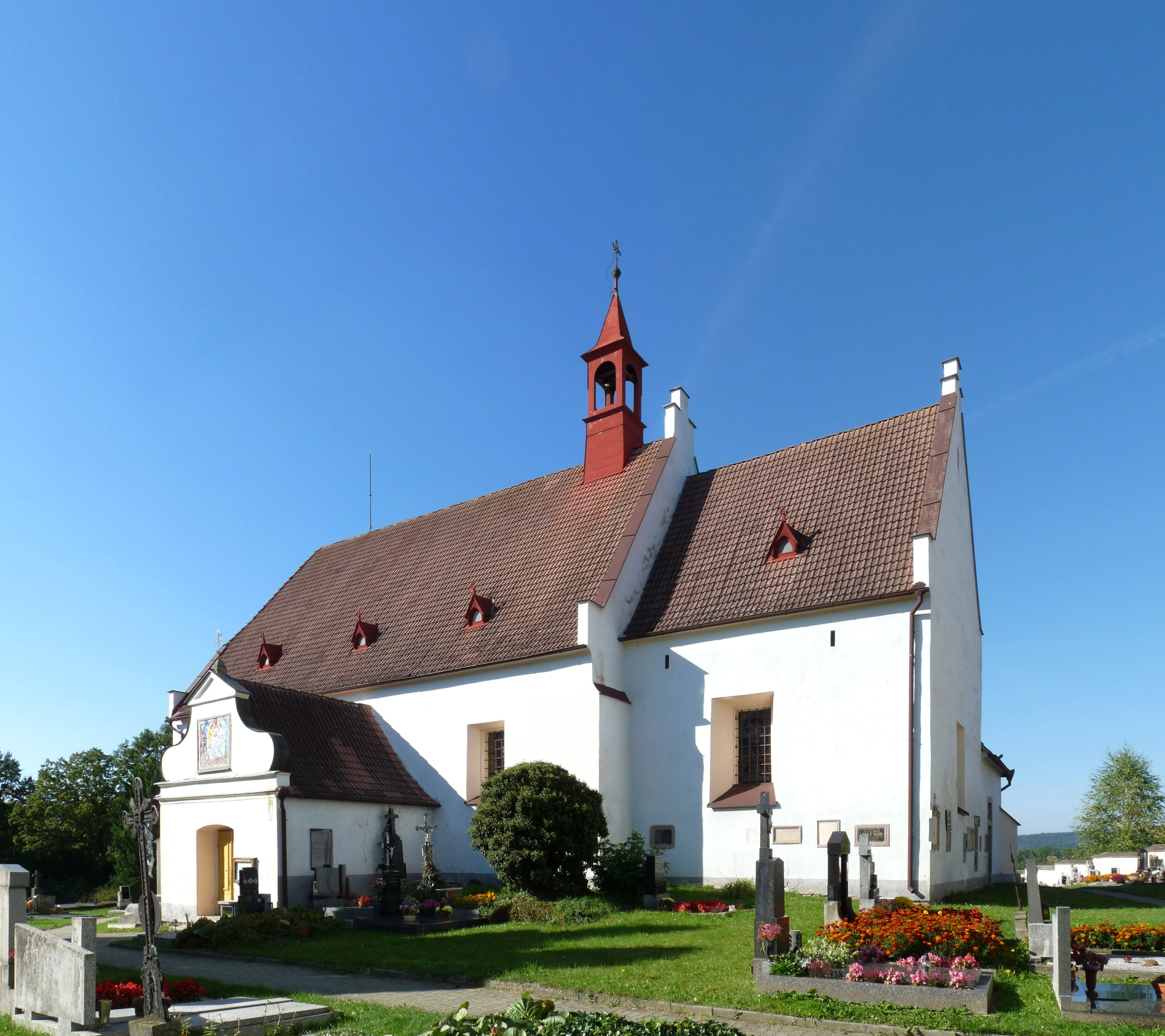 Church of Saint Stephen in the village of Bílá Hůrka, part of the village of Malešice, České Budějovice District, South Bohemian Region, Czech Republic.